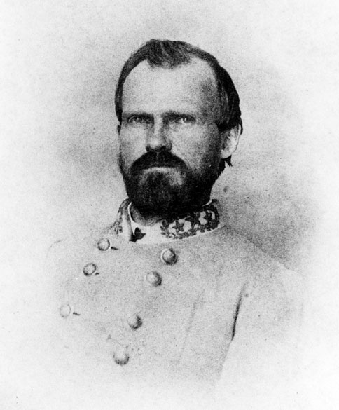 James Camp Tappan